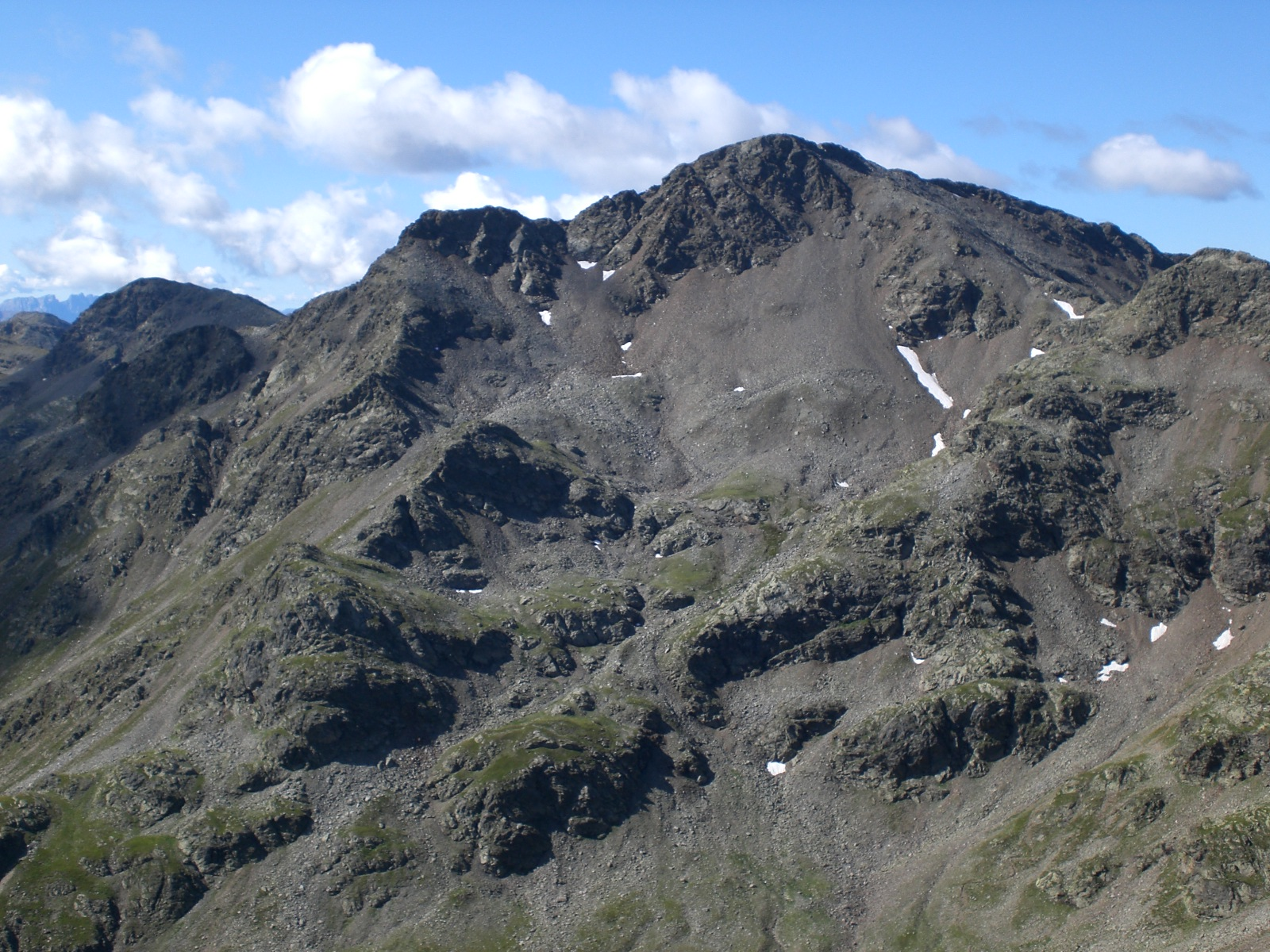 The Jakobspitze (2.742 m) as seen from Tagewaldhorn (2.708 m), Sarntal Alps, South Tyrol